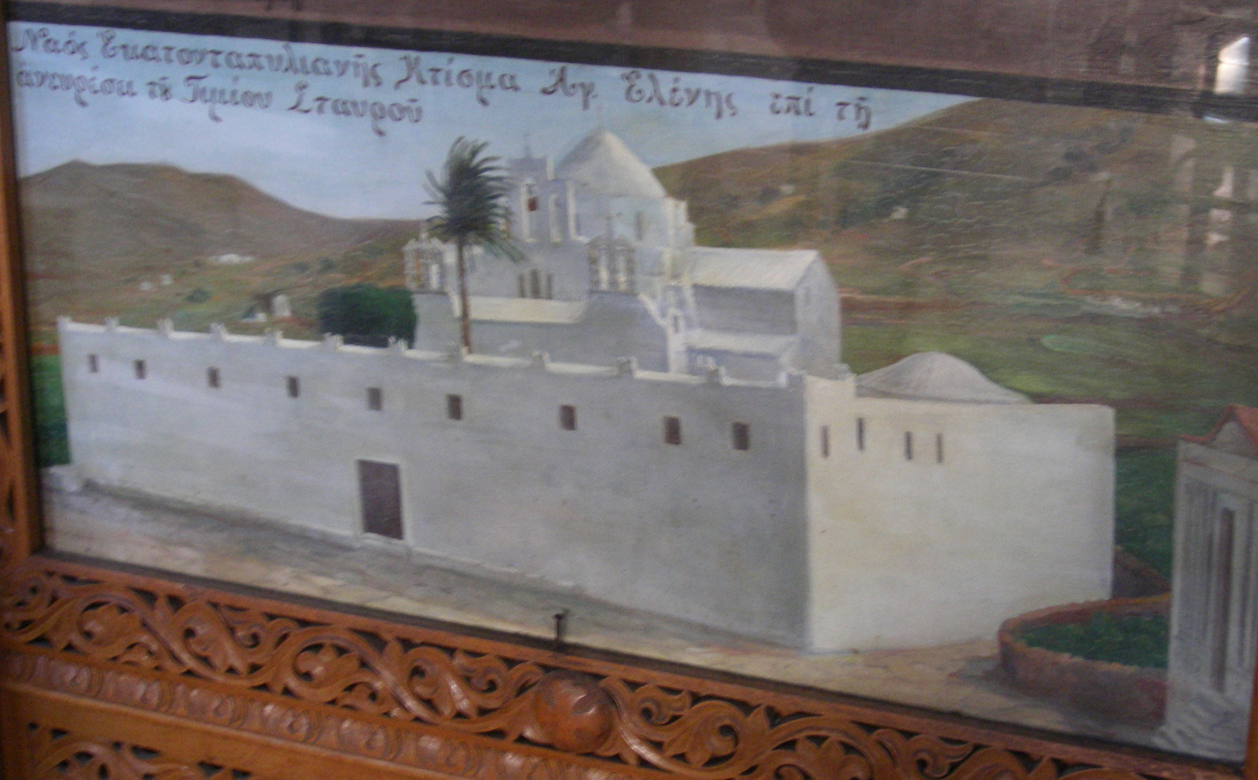 Katapoliani before restauration works of the 1960's. 18th century icon in Katapoliani church on Paros.